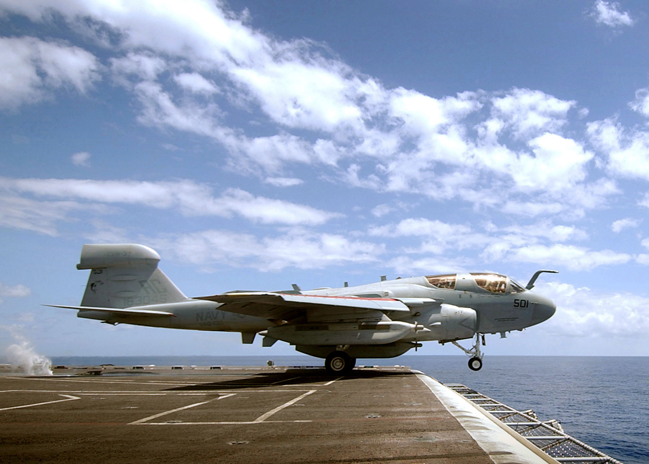 040617-N-4308O-014 Atlantic Ocean (Jun. 17, 2004) - An EA-6B Prowler assigned to the "Zappers" of Electronic Warfare Squadron One Three Zero (VAQ-130) launches from the flight deck aboard USS Harry S. Truman (CVN 75). Truman is one of seven aircraft carriers involved in Summer Pulse 2004. Summer Pulse 2004 is the simultaneous deployment of seven aircraft carrier strike groups (CSGs), demonstrating the ability of the Navy to provide credible combat power across the globe, in five theaters with other U.S., allied, and coalition military forces. Summer Pulse is the Navy's first deployment under its new Fleet Response Plan (FRP). The Truman CSG is conducting a scheduled training exercise followed by overseas pulse operations.